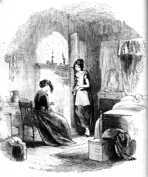 Miss Jellyby Phiz (Hablot K. Browne) 1853 Etching 4 1/8 x 4 1/8 inches on a page of 8 7/16 x 5 inches Facing p. 31, the close of the third chapter of Dickens's Bleak House